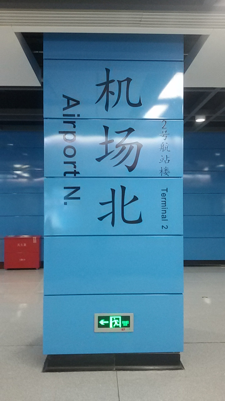 WORD on PILLAR for Airport North Station in Guangzhou Metro.